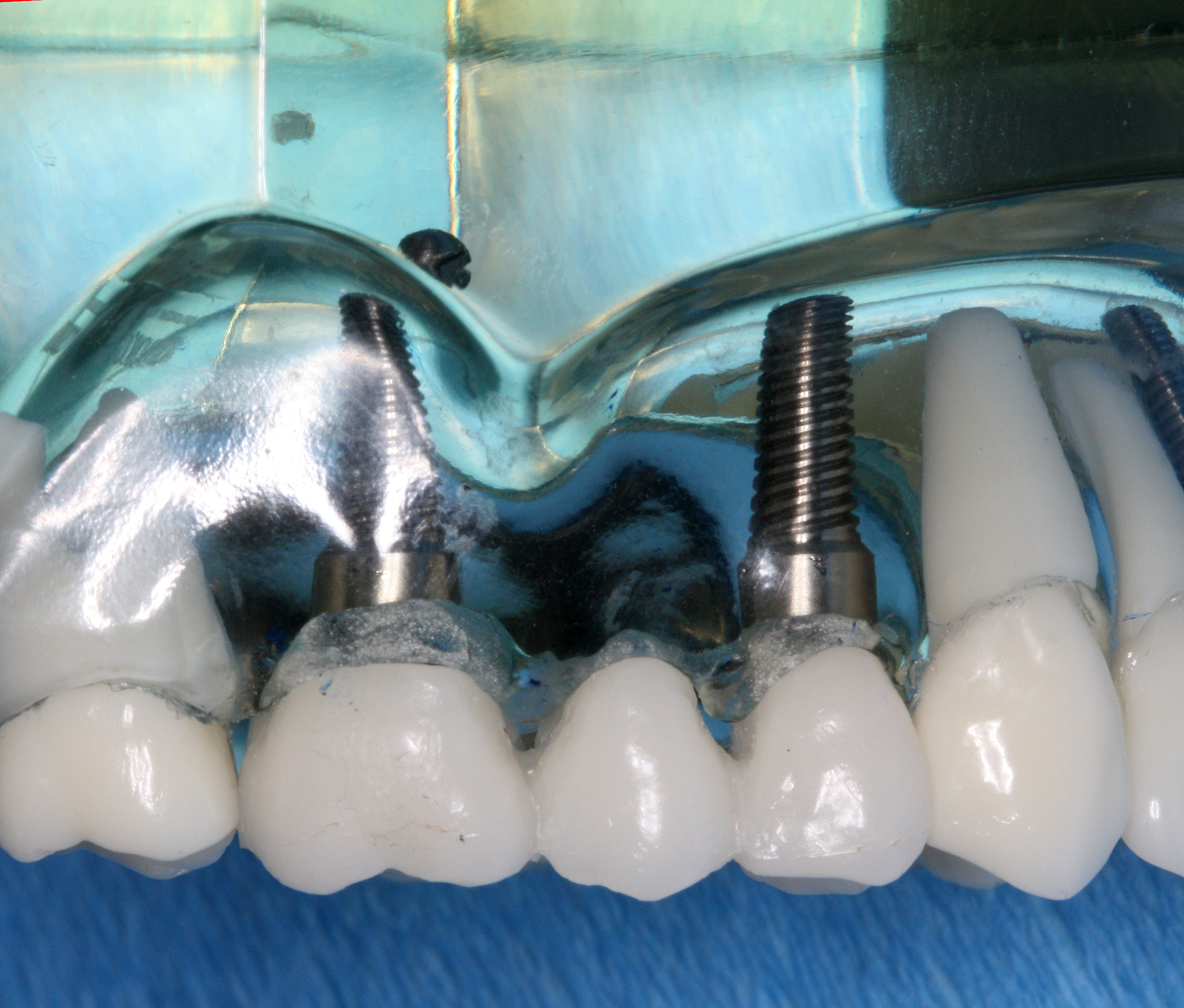 model of a fixed partial denture (bridge) on 2 dental implants